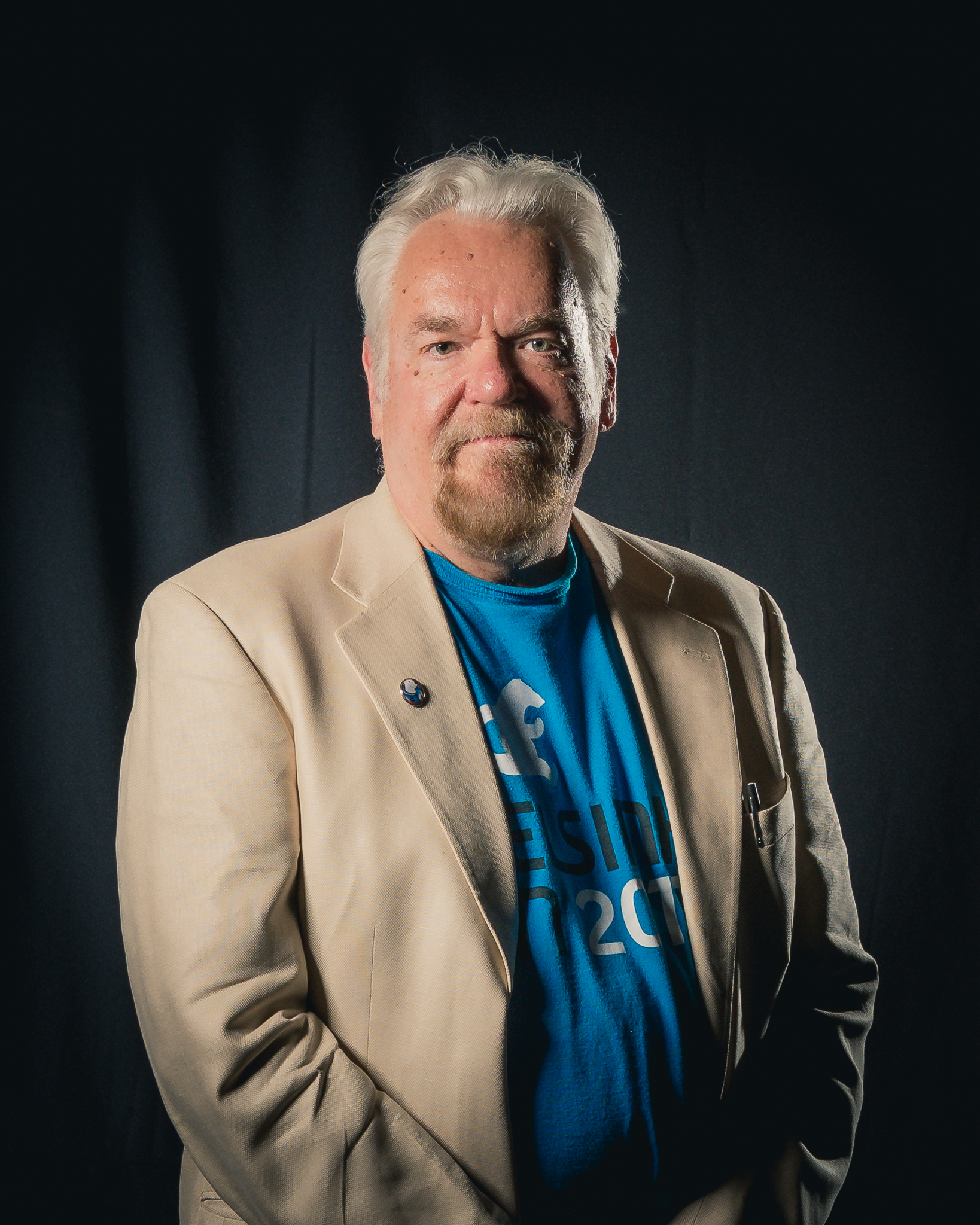 Portrait photoshoot at Worldcon 75, Helsinki, before the Hugo Awards: Walter Jon Williams